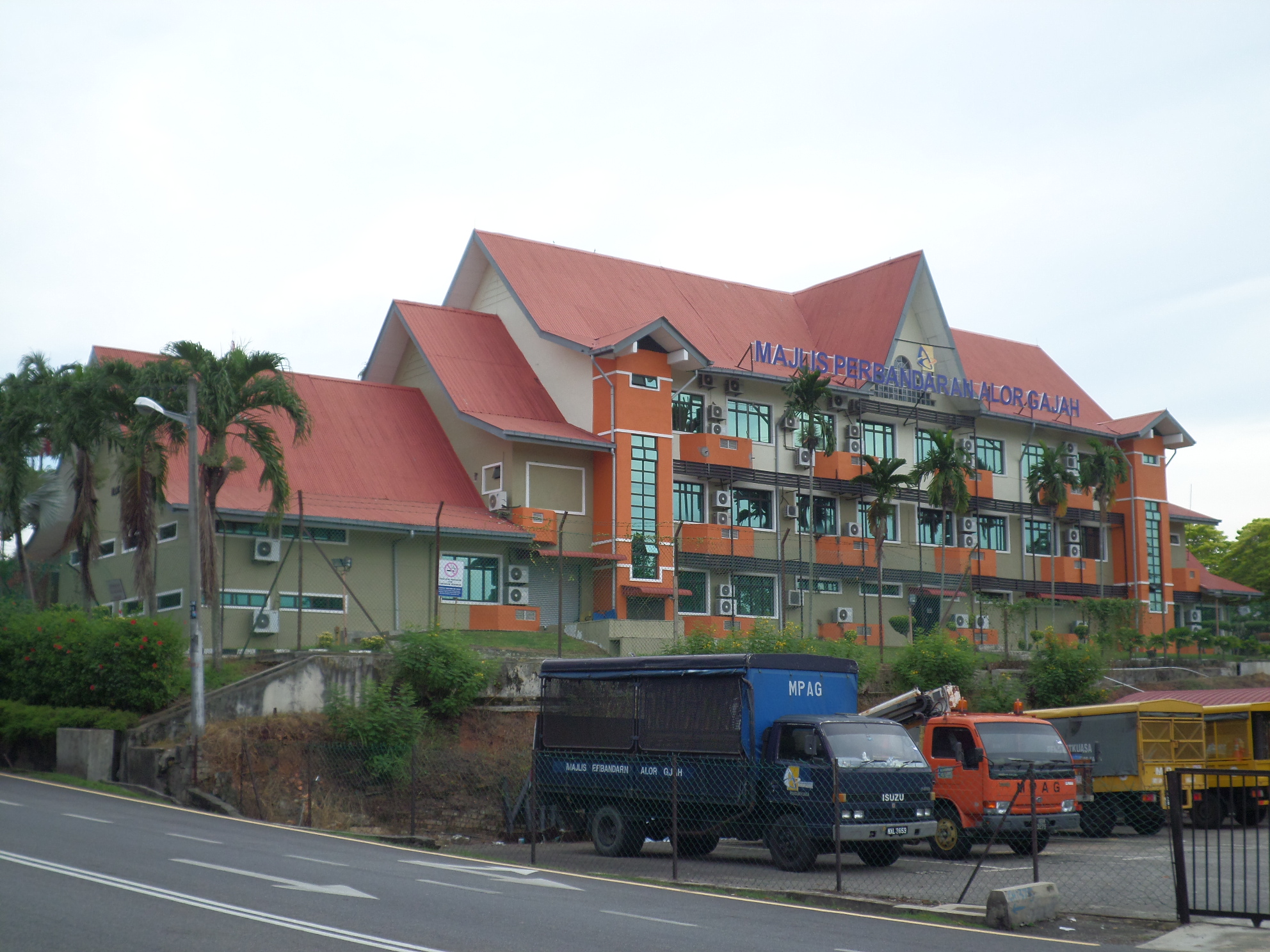 Alor Gajah Municipal Council, Alor Gajah, Melaka, MalaysiaBahasa Melayu: Majlis Perbandaran Alor Gajah, Alor Gajah, Melaka, Malaysia